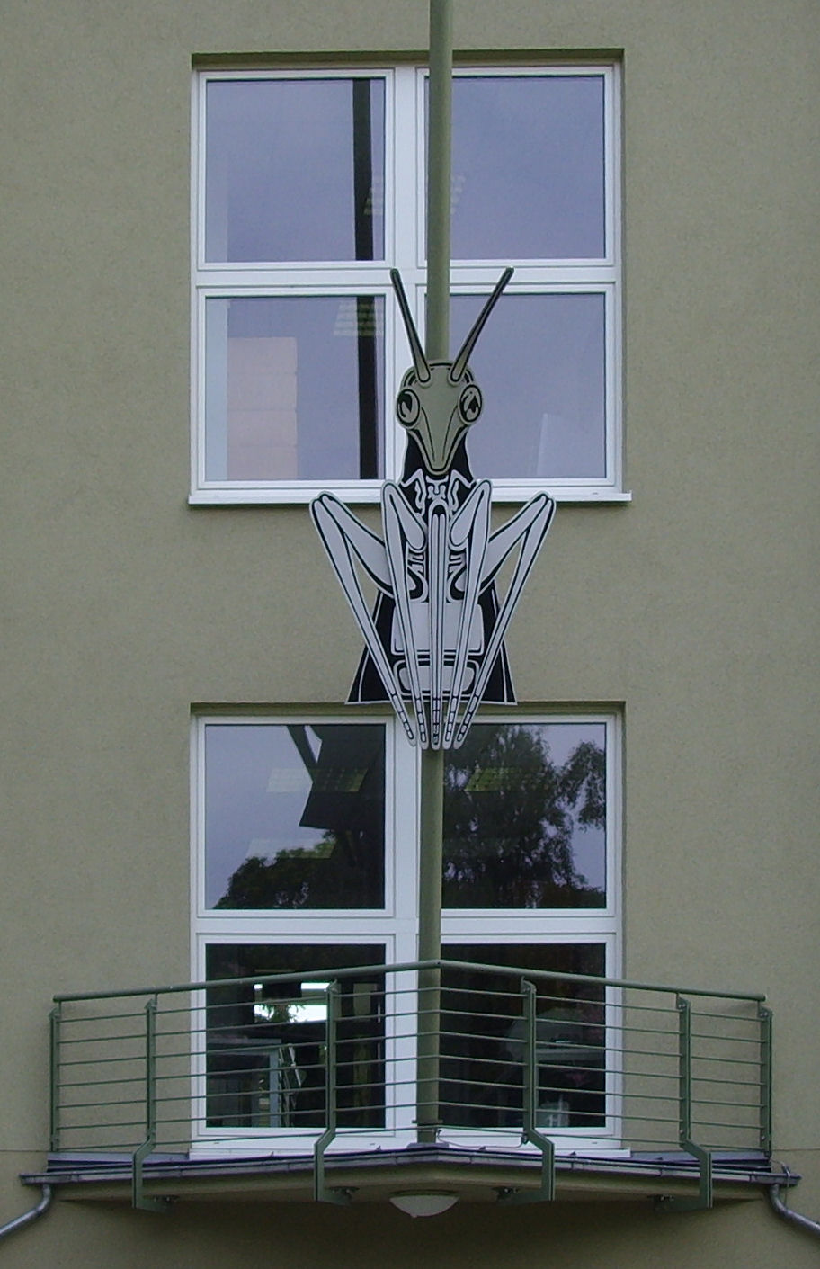 German Entomological Institute, work of art above main entrance